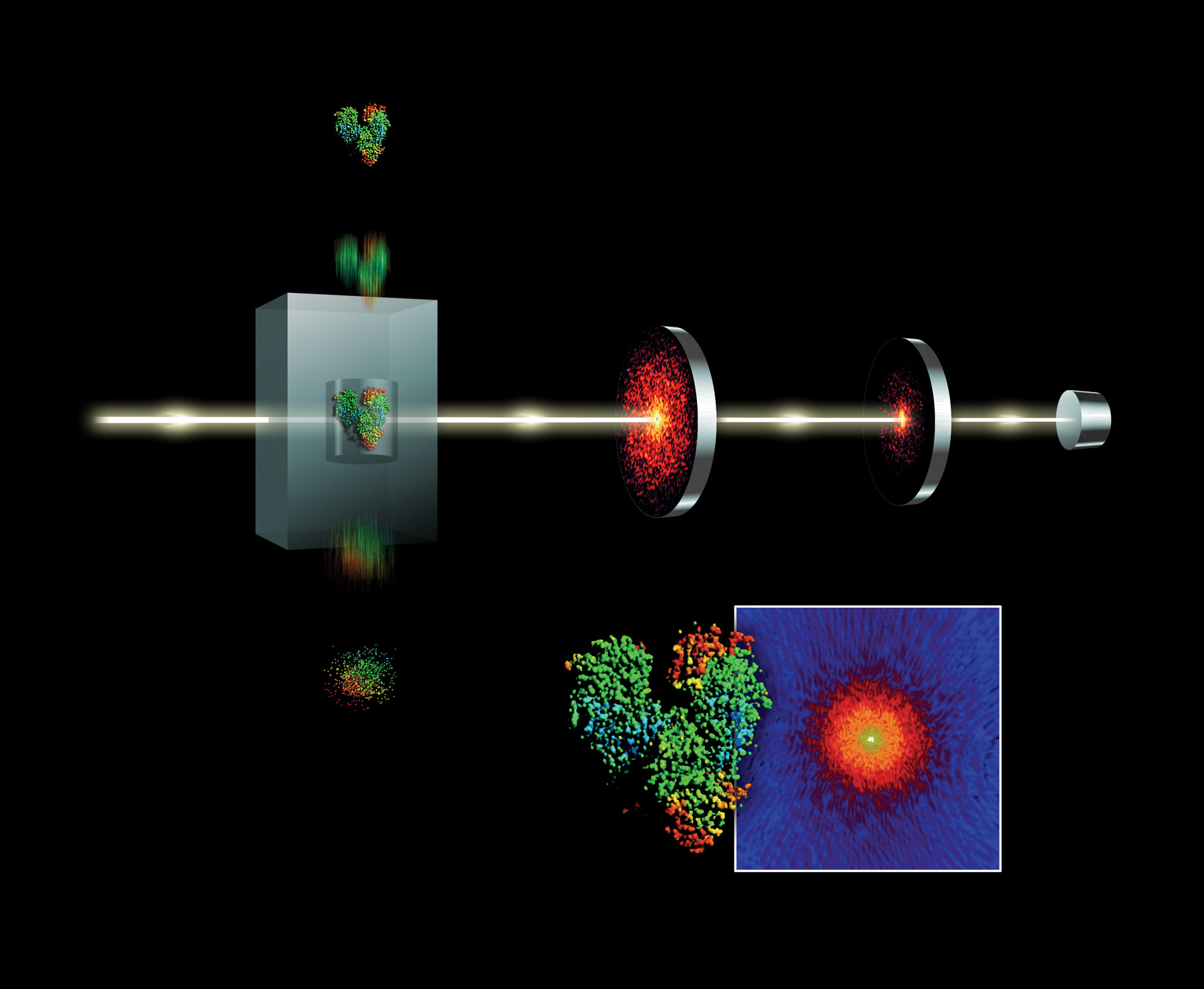 Simulation of a 3-D structure reconstruction from the diffraction of a single molecule at an X-ray free electron laser